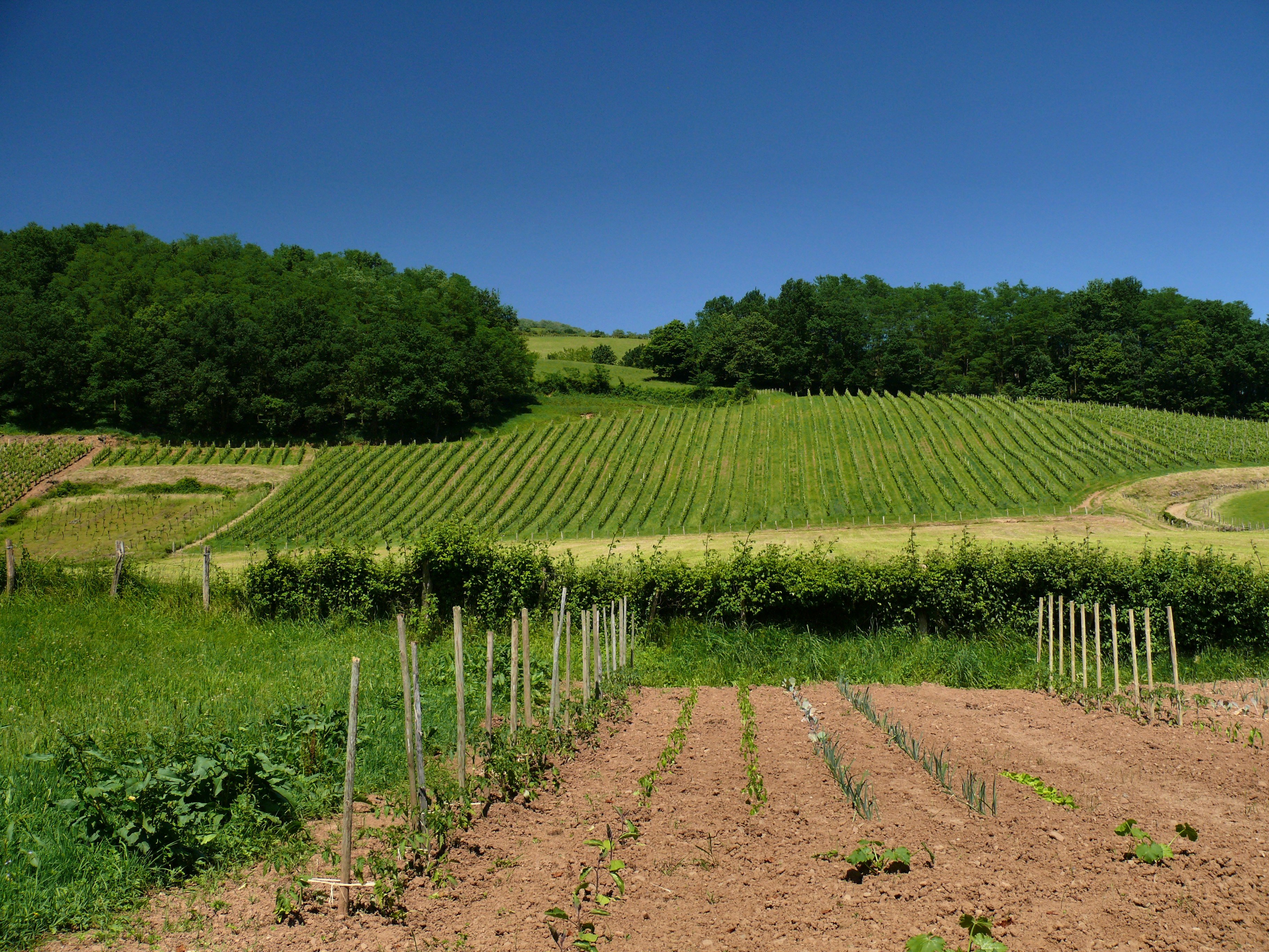 Irouleguy vineyard